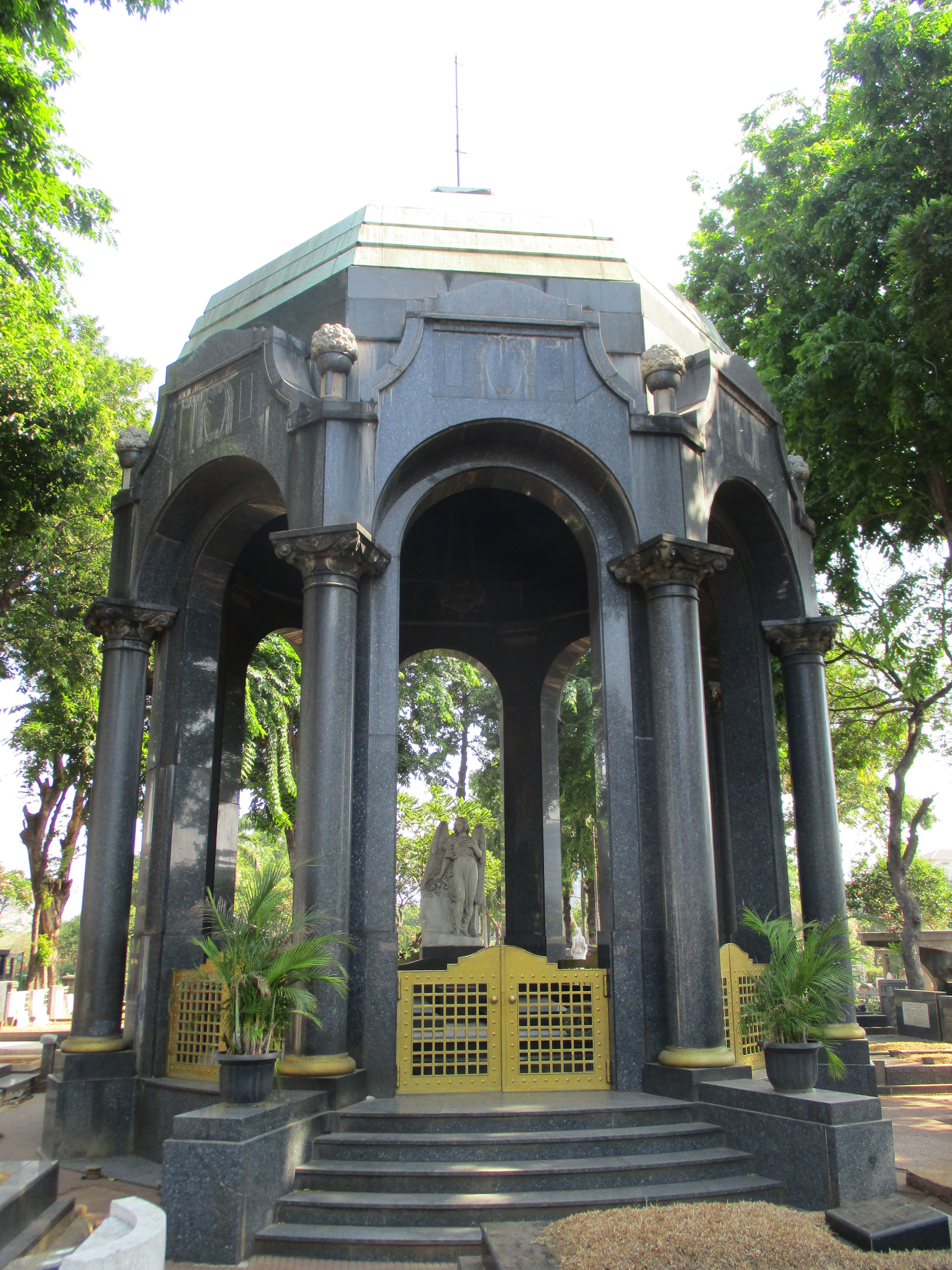 O. G. Khouw Mausoleum in Petamburan Graveyard, Jakarta.